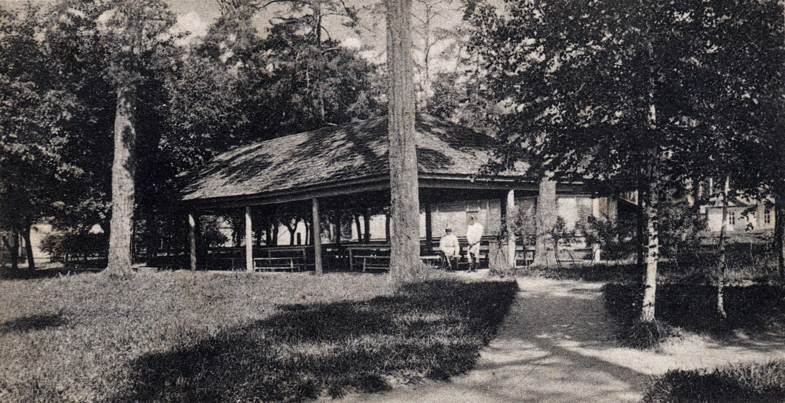 The Tver cavalry school